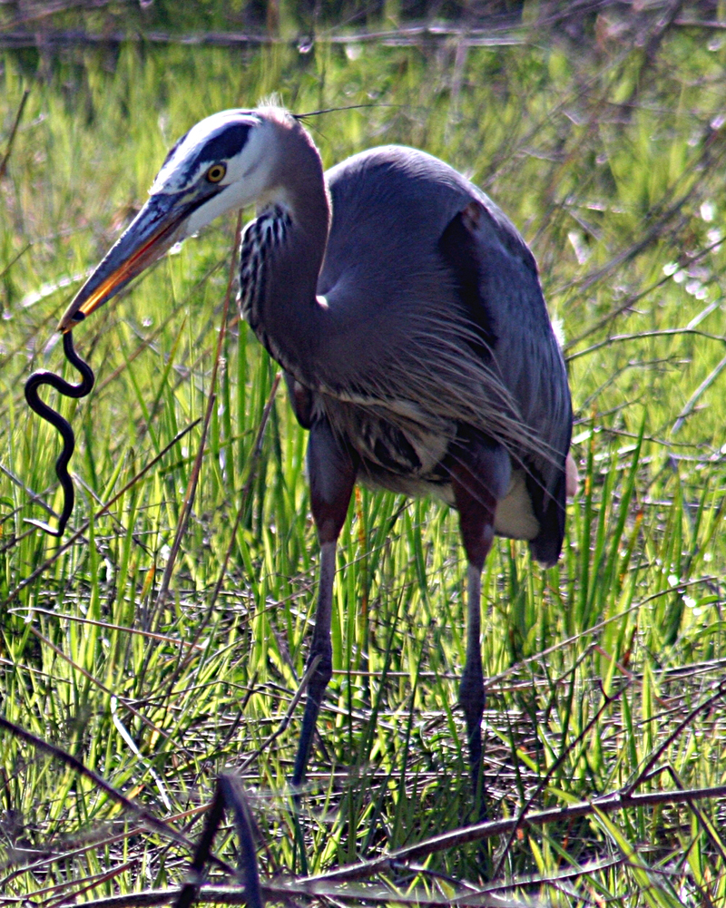 Blue heronis having a dinner , Tennessee Valley, California.